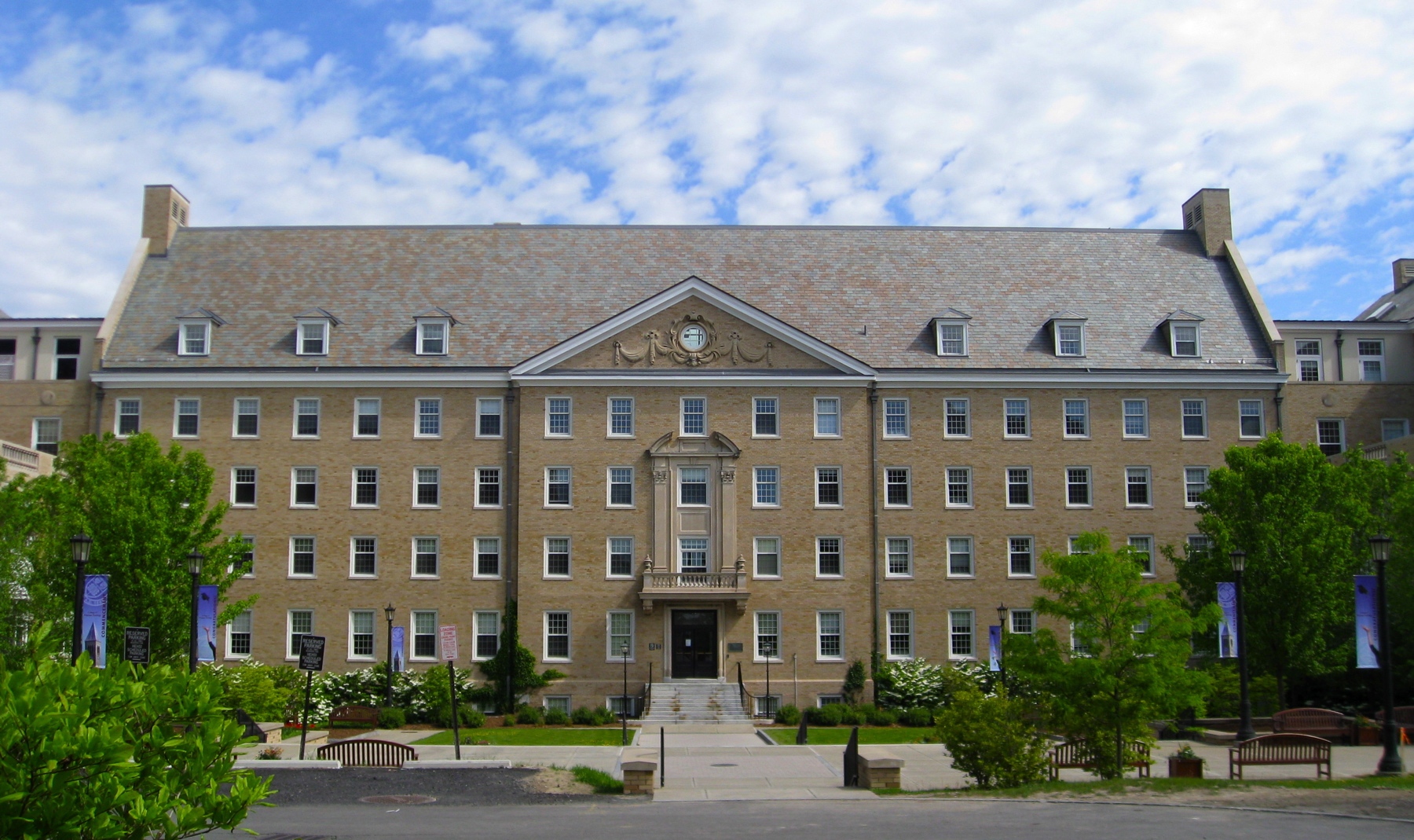 Martha Van Rensselaer Hall, College of Human Ecology, Cornell University Ithaca NY USA